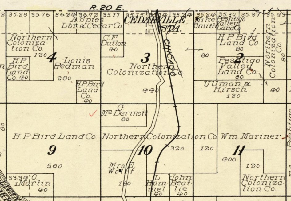 Map detail of Cedarville, Wisconsin. From Standard Atlas of Marinette County Wisconsin Including a Plat Book of the Villages, Cities and Townships of the County. 1912. Chicago: Geo. A. Ogle & Co.